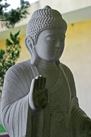 A statue of the Buddha in Hacienda Heights, California.